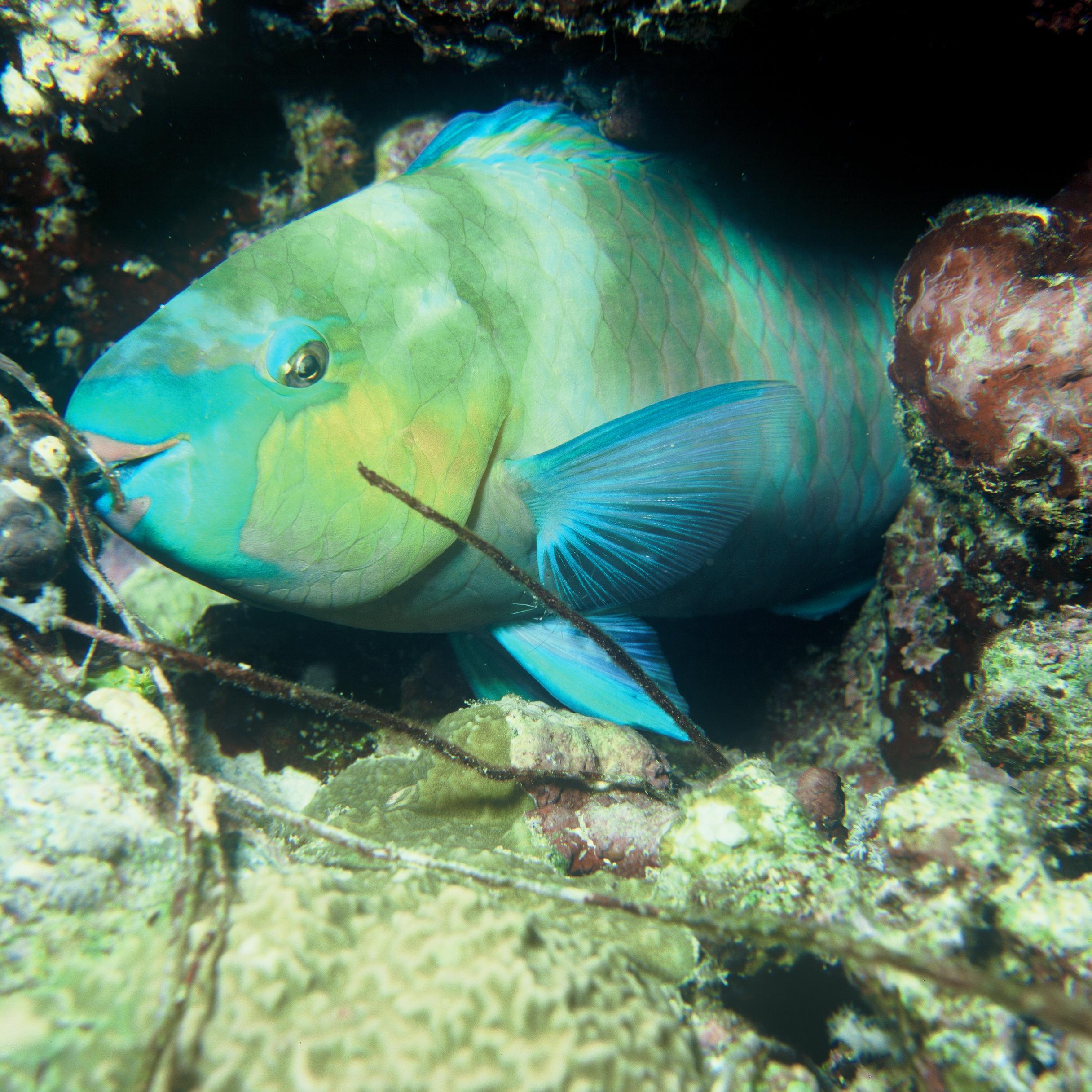 A parrotfish (Scarus ferrugineus).